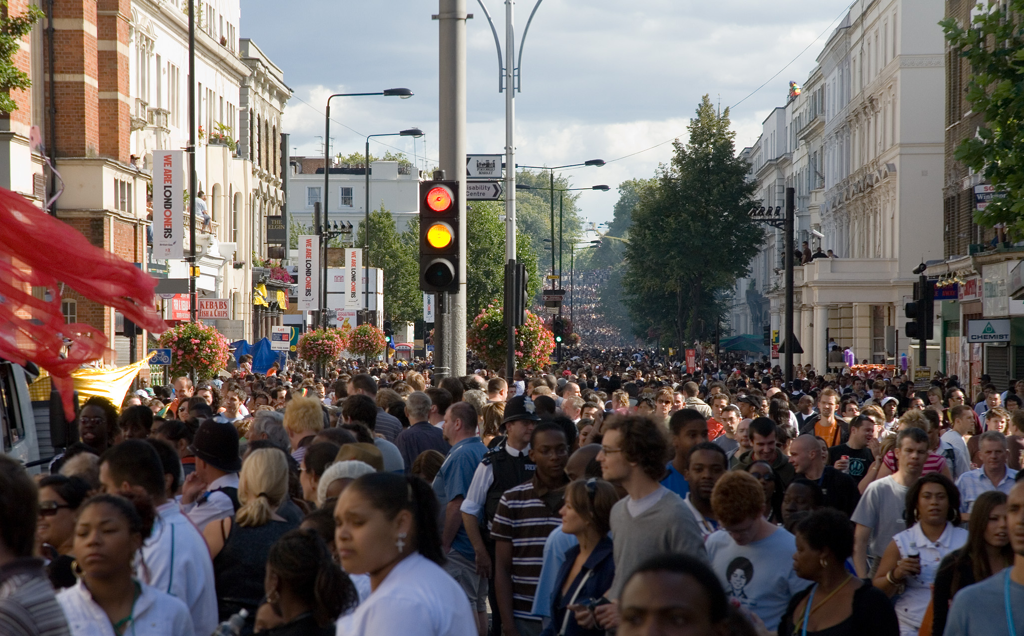 Crowd along Ladbroke Grove during the Notting Hill Carnival 2006 (London, UK)